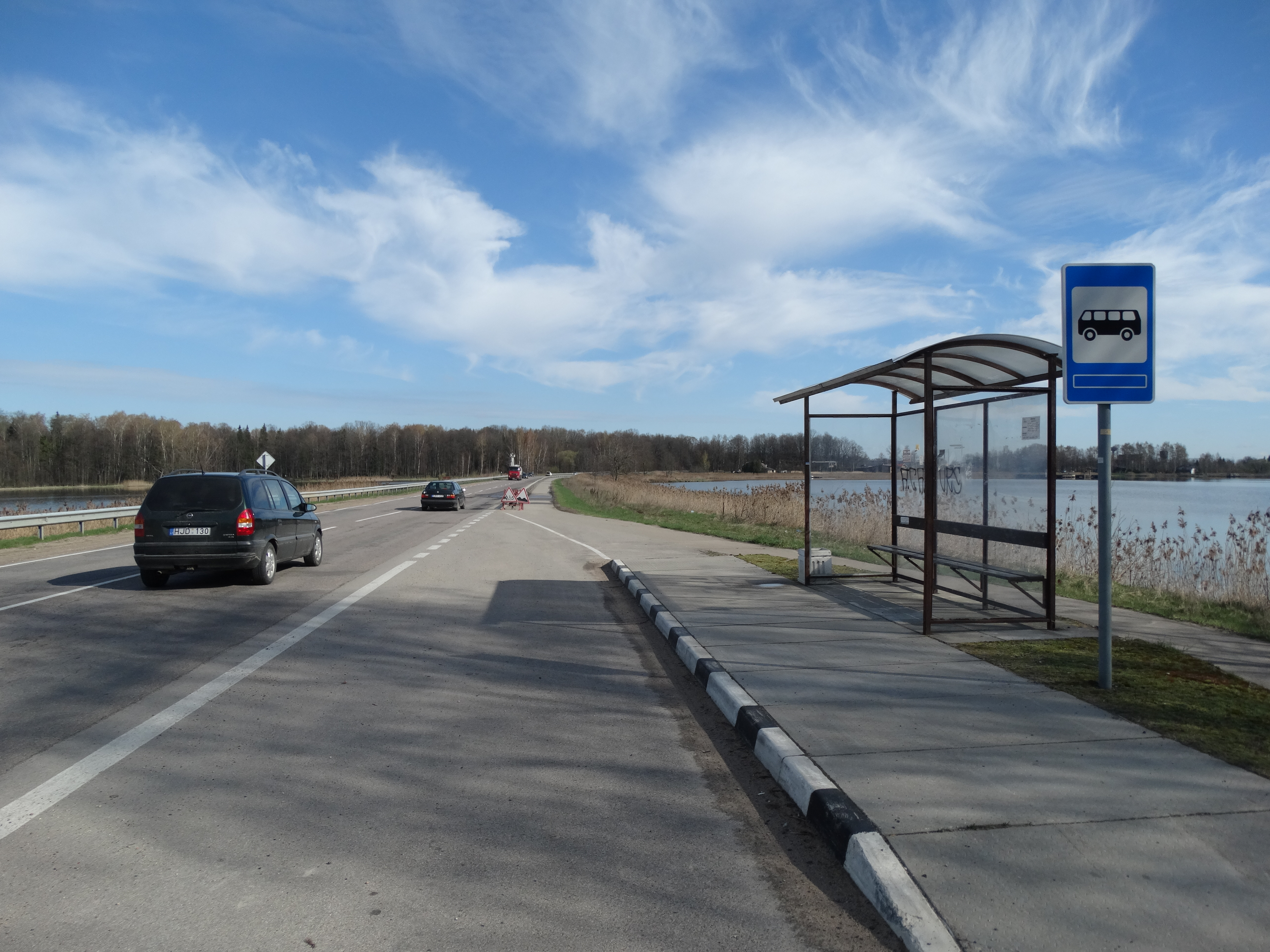 Bus stop „Ščebnica“, by Kaišiadorys, Lithuania